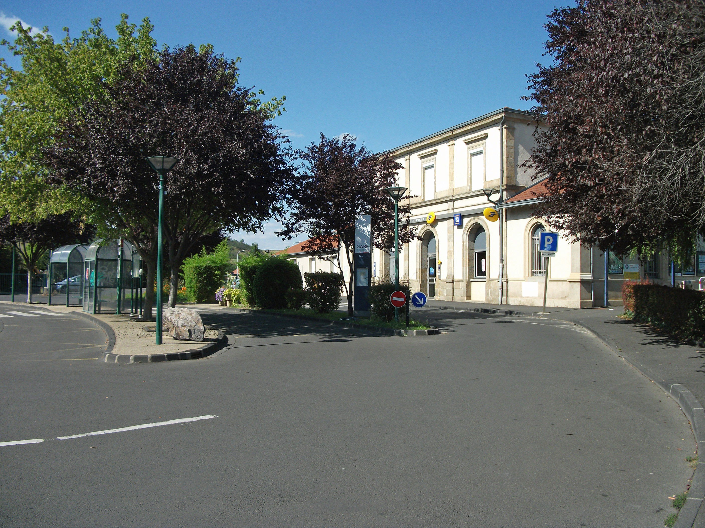 Post office and building of Les Martres-de-Veyre [8769]